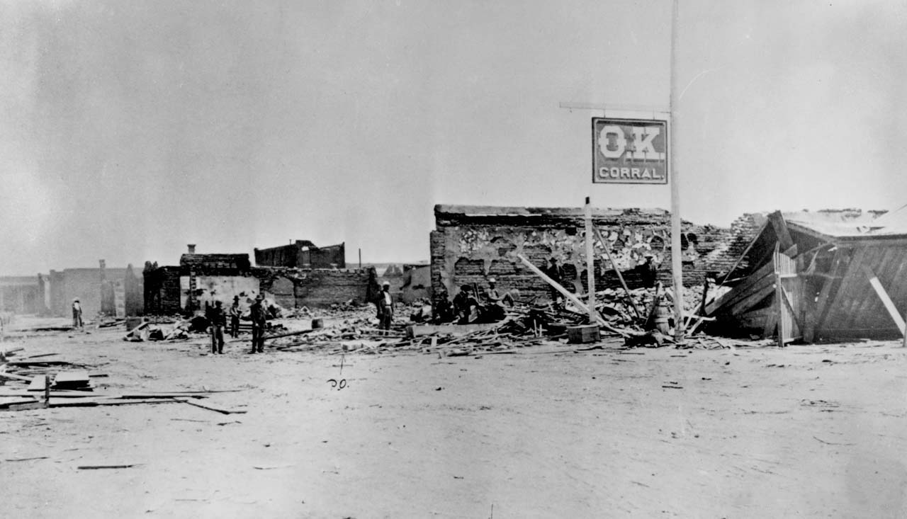 O.K. Corral in Tombstone, Arizona after a fire in 1882.